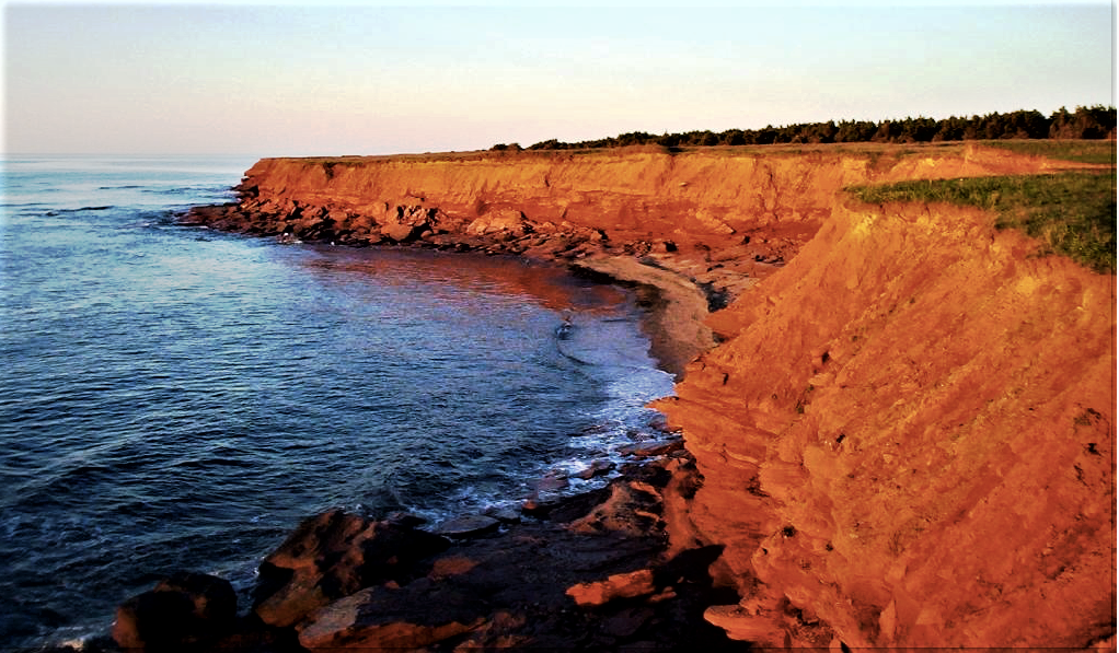 Prince Edward Island National Park- Cavendish-Central Coastal Drive- Coastline This photo was taken in a protected area in Canada, Wikidata item Prince Edward Island National Park (Q1314367)